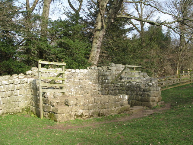 Turret 26b (Brunton). The turret was excavated by John Clayton in 1878 and 1880. It measures 12ft 9in by 11ft 6in (internally). The wing wall to the west is bonded with the Broad Wall (10ft wide). On the east side, the Broad Foundation approaches the turret, but the Narrow Wall (6ft wide) and with its own foundation, rides up over the six courses of the broad wing wall. {Source: "Handbook to the Roman Wall" (14th Edition) by J Collingwood Bruce.} See also 1220037.